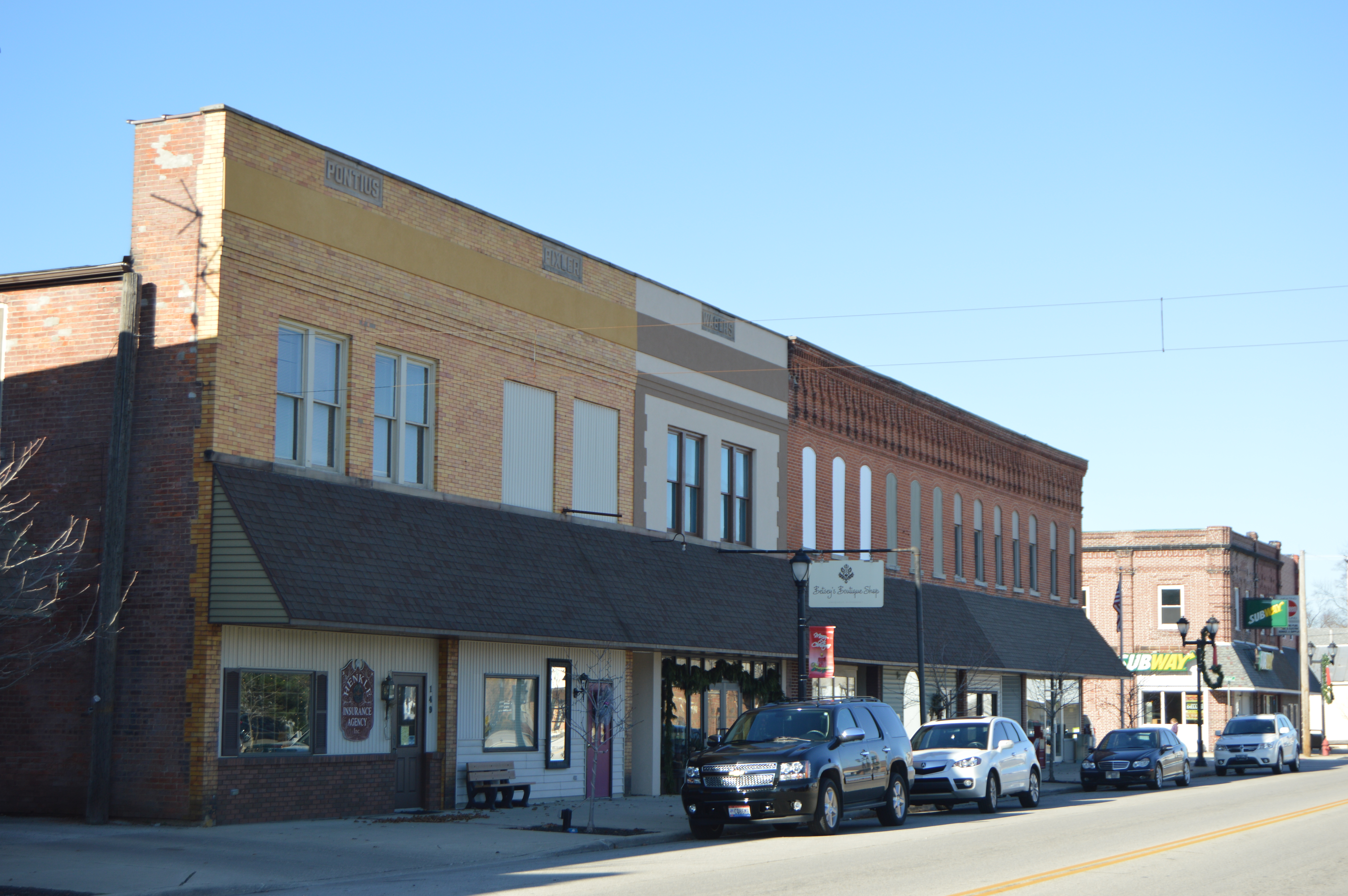 Buildings on the western side of Main Street (U.S. Route 33/State Route 118) north of the Pearl Street intersection in downtown Rockford, Ohio, United States.